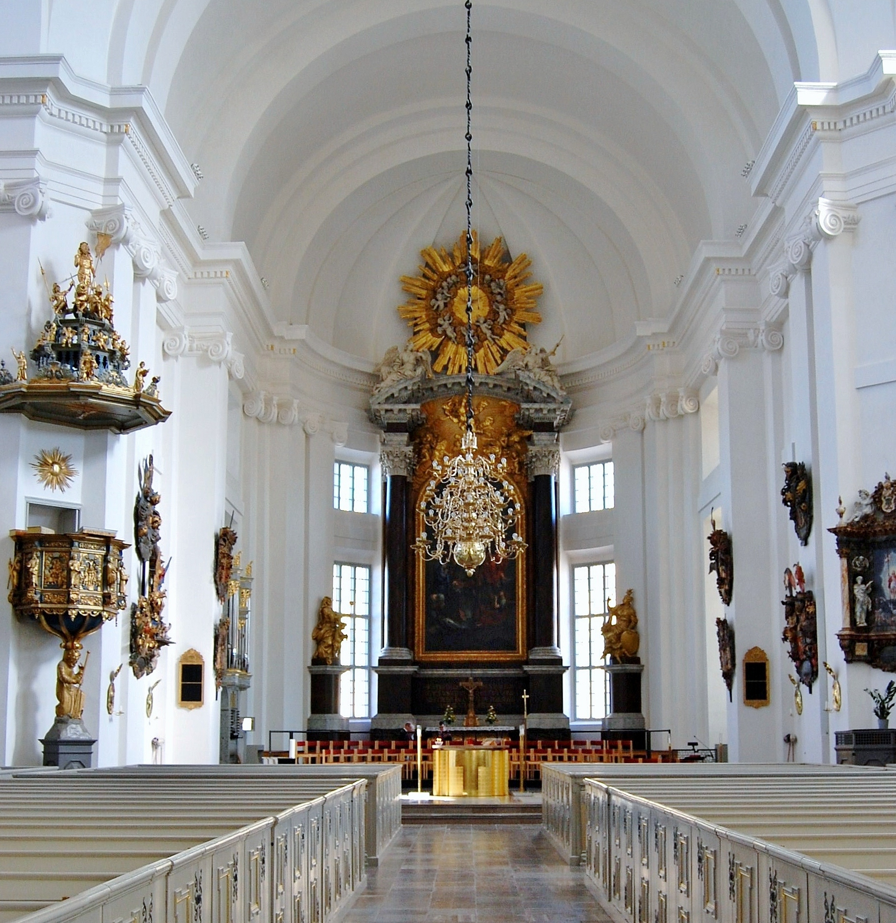 Kalmar Cathedral.Interior.